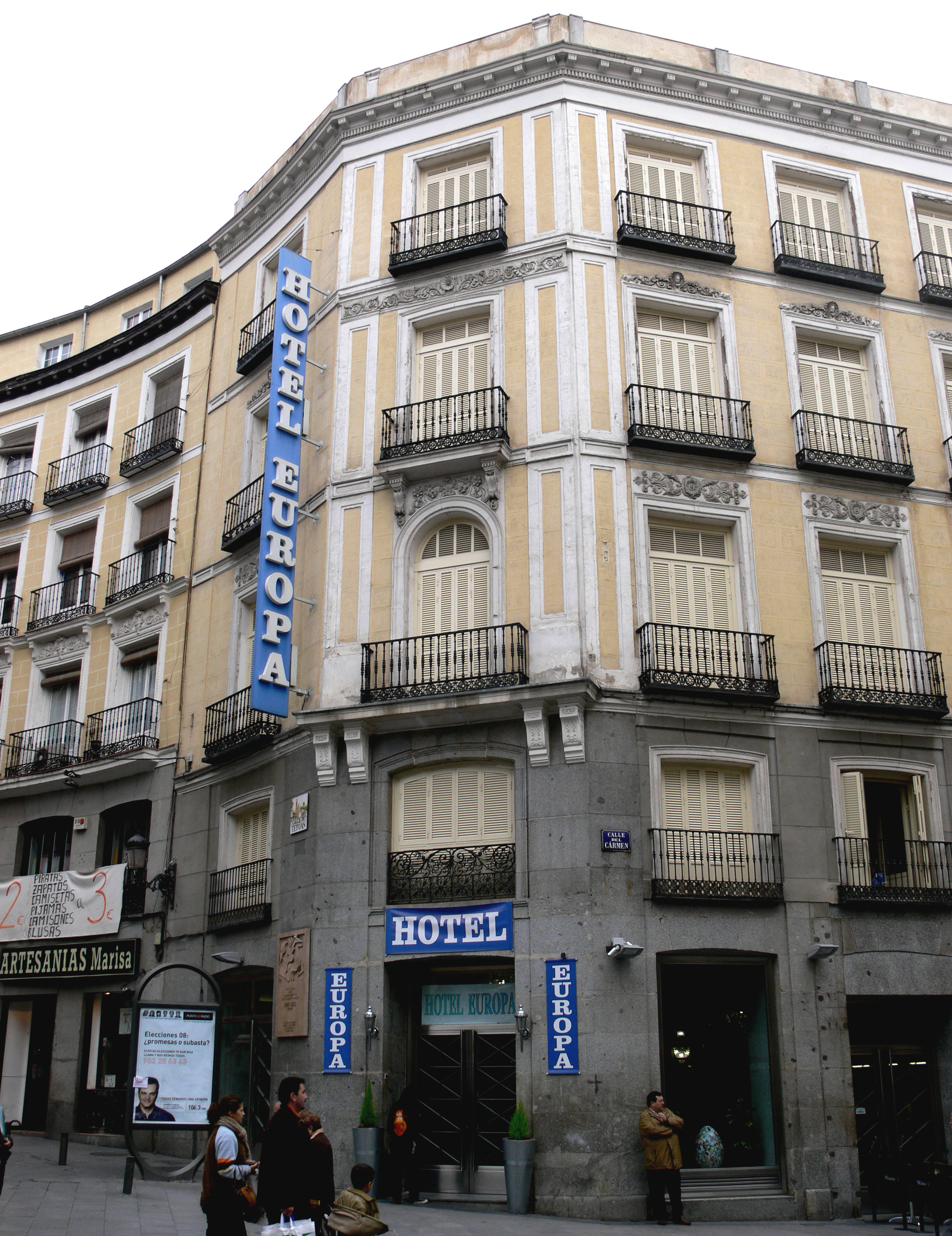 Hotel Europa, Madrid (birthplace of painter Juan Gris)